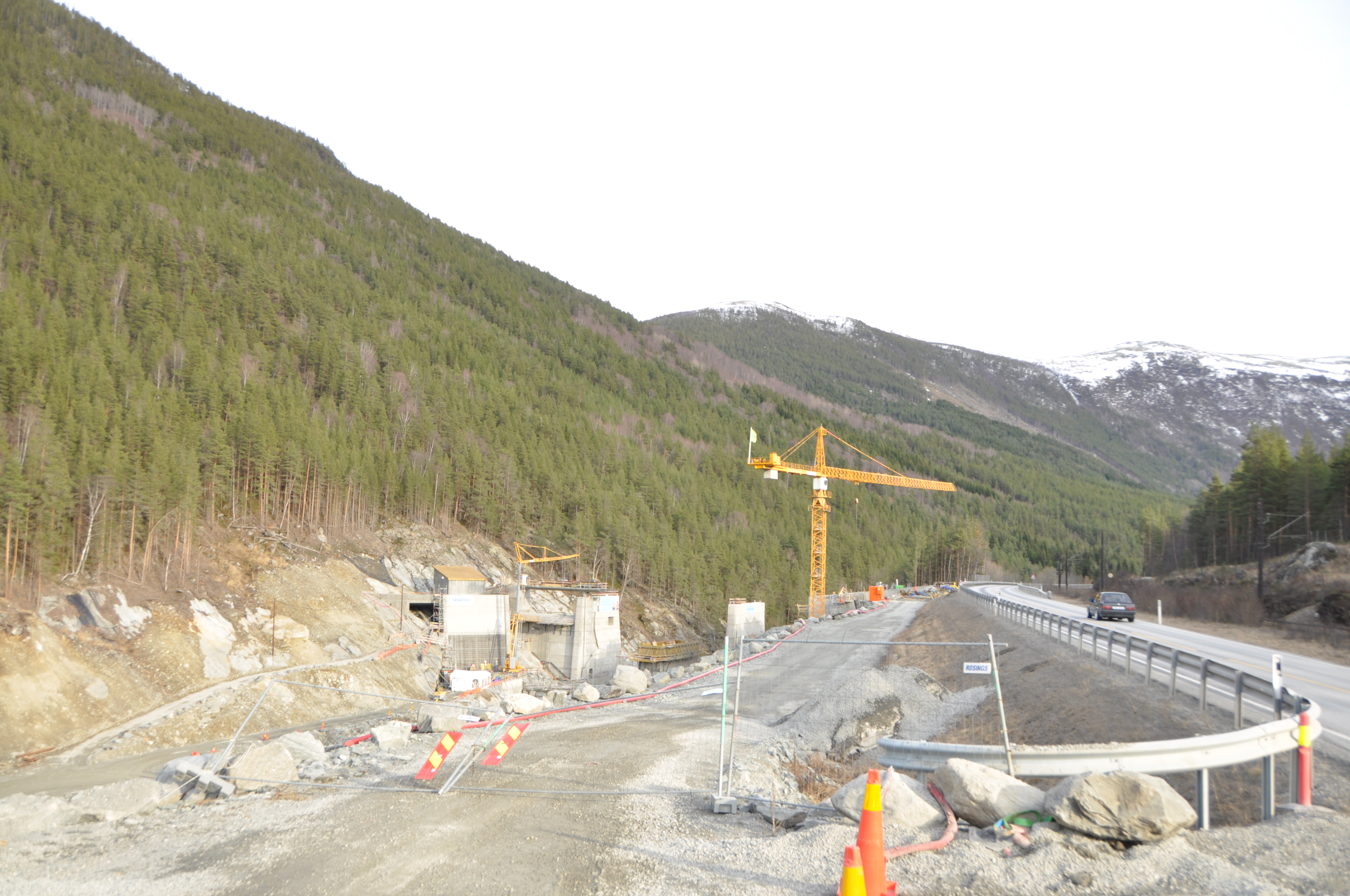 Rosten Hydro Power (dam) under Construction, April 2017